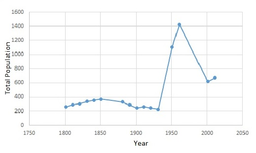 The total population of Ringshall Civil Parish, Suffolk, as reported by the Census of Population from 1801-2011.